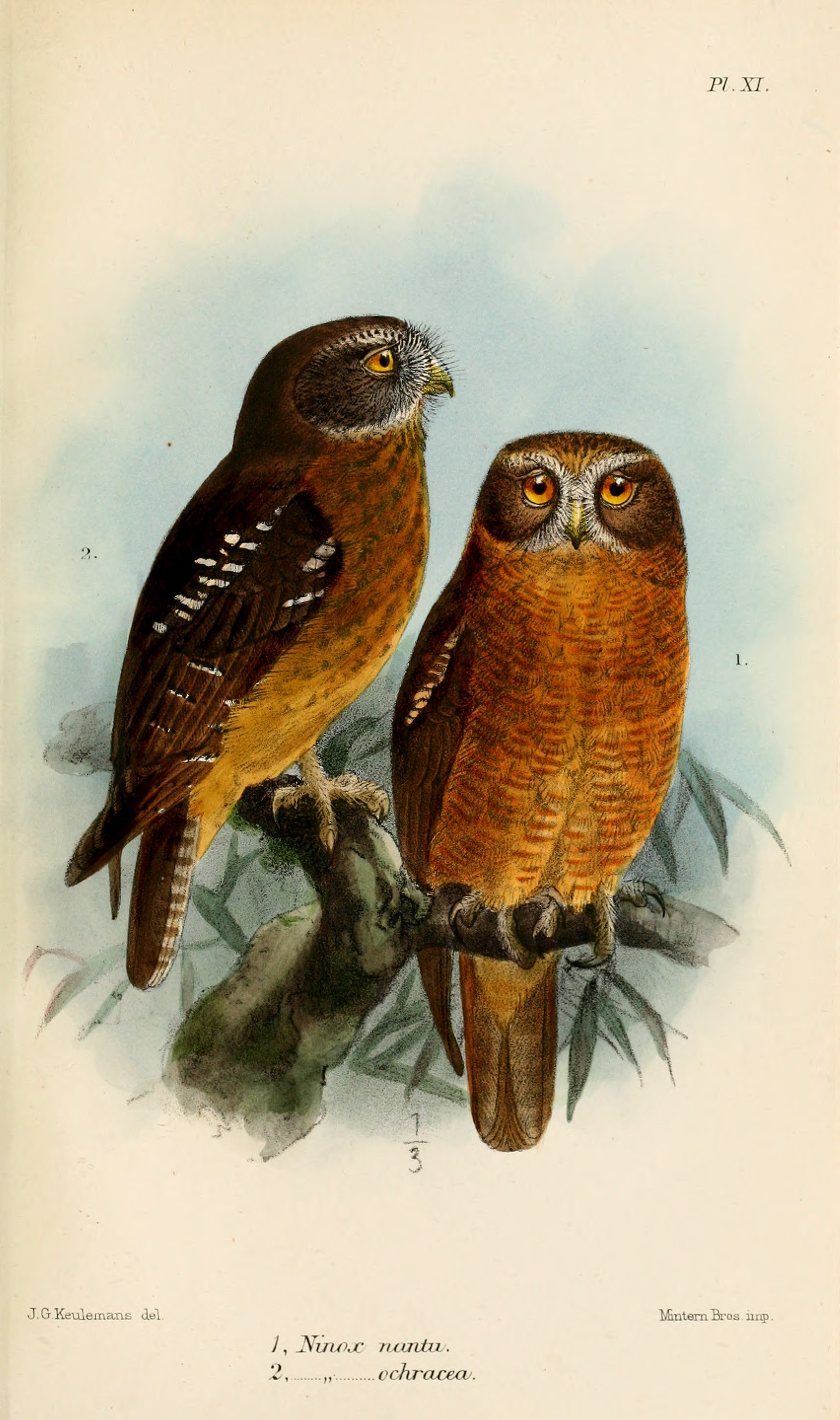 Ochre-bellied Hawk-owl (left), Moluccan Hawk-owl (right)